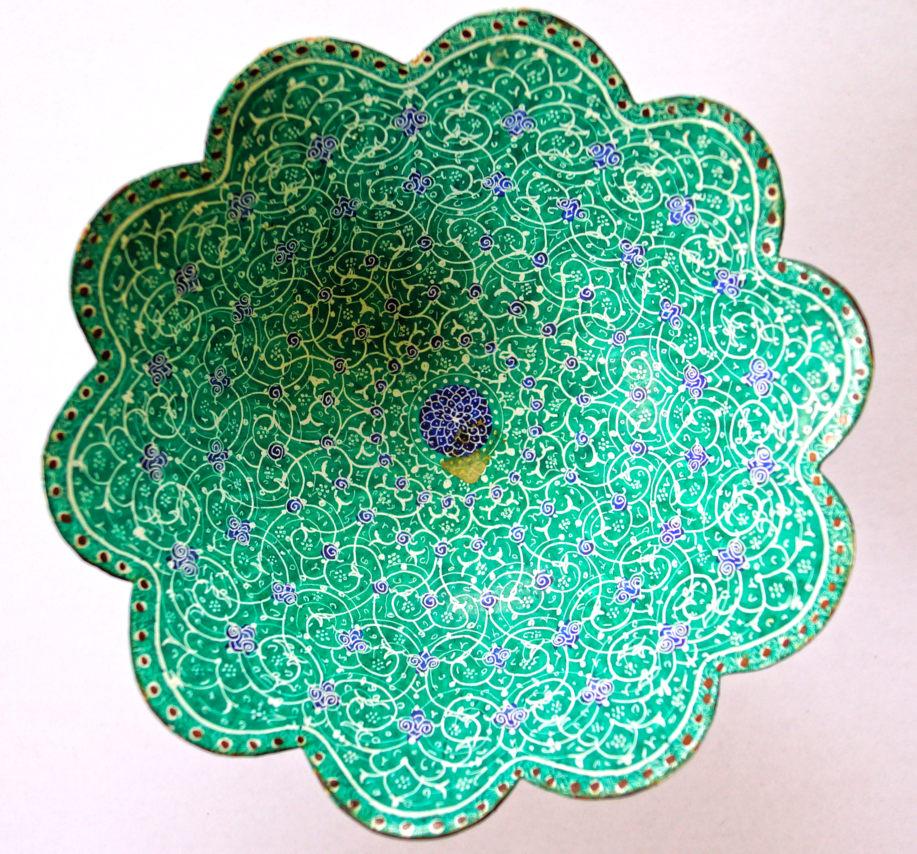 An example of Mīnākārī from Iran.